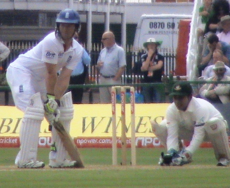 Eoin Morgan preparing to face a delivery from one of Bangladesh's spin bowlers on the first day of the 2nd Test at Old Trafford. Mushfiqur Rahim, the wicket-keeper, is standing up to the stumps.